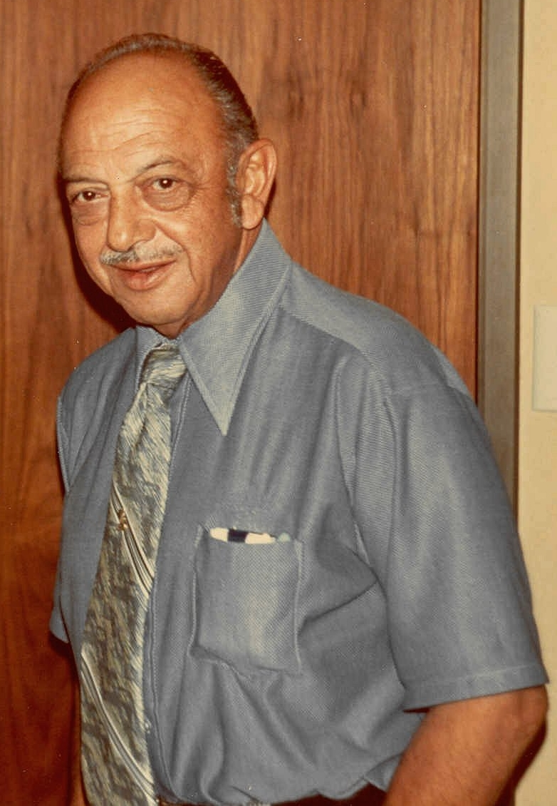 Photo of actor Mel Blanc